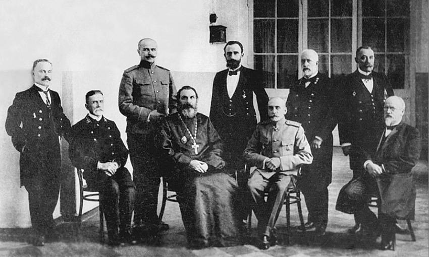 Russian lawyers. Early 20th century. Saint-Petersburg.